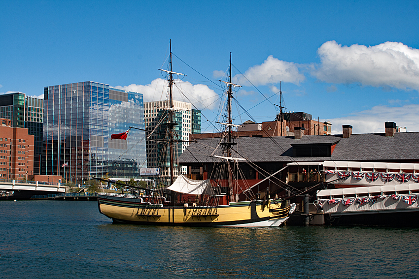 Replica of the Beaver, one of the ships involved in the Boston Tea Party